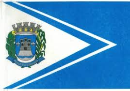 Flags of the city of Passo do Sobrado Rio Grande do Sul, Brazil.